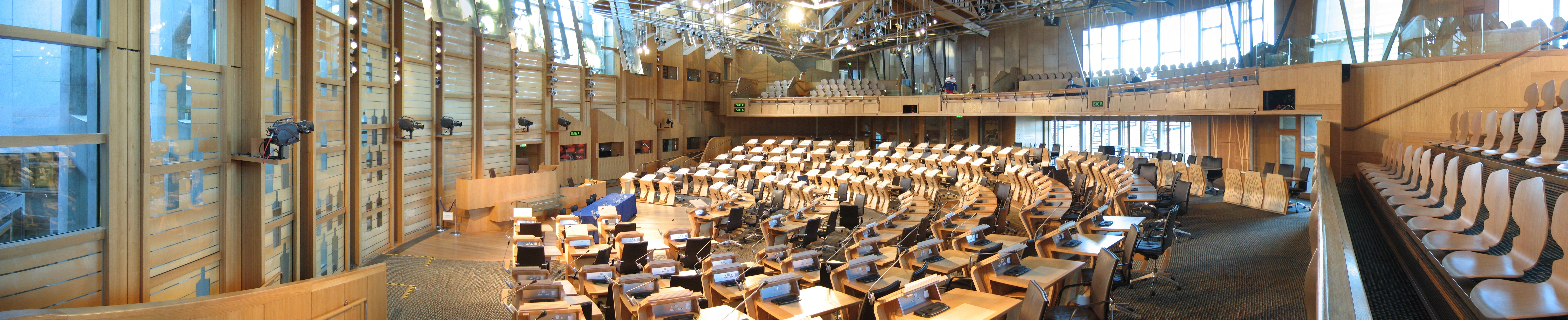 Image taken by User: Klaus with K, stitched from 6 photos Inside view of the Scottish Pariament debating chamber from the visitor area.